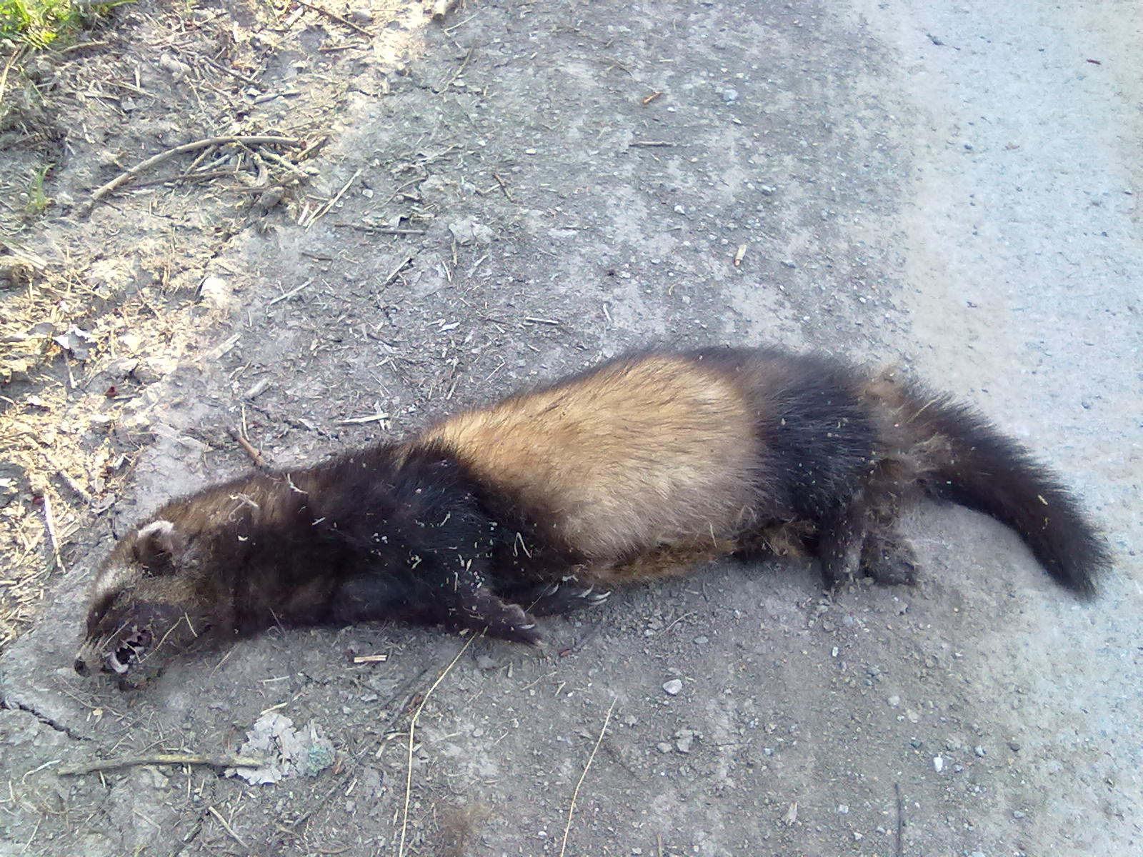 European polecat (Mustela putorius) as a traffic victim in Sauerland, Germany, 18. April 2011